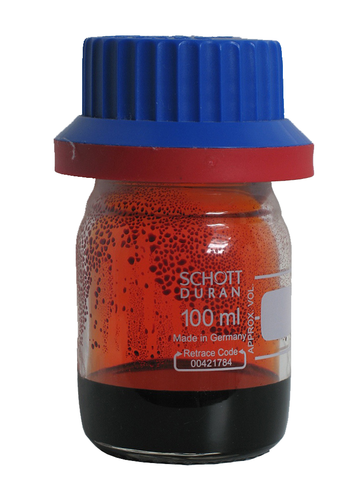 25 milliliters of bromine, a liquid at room temperature